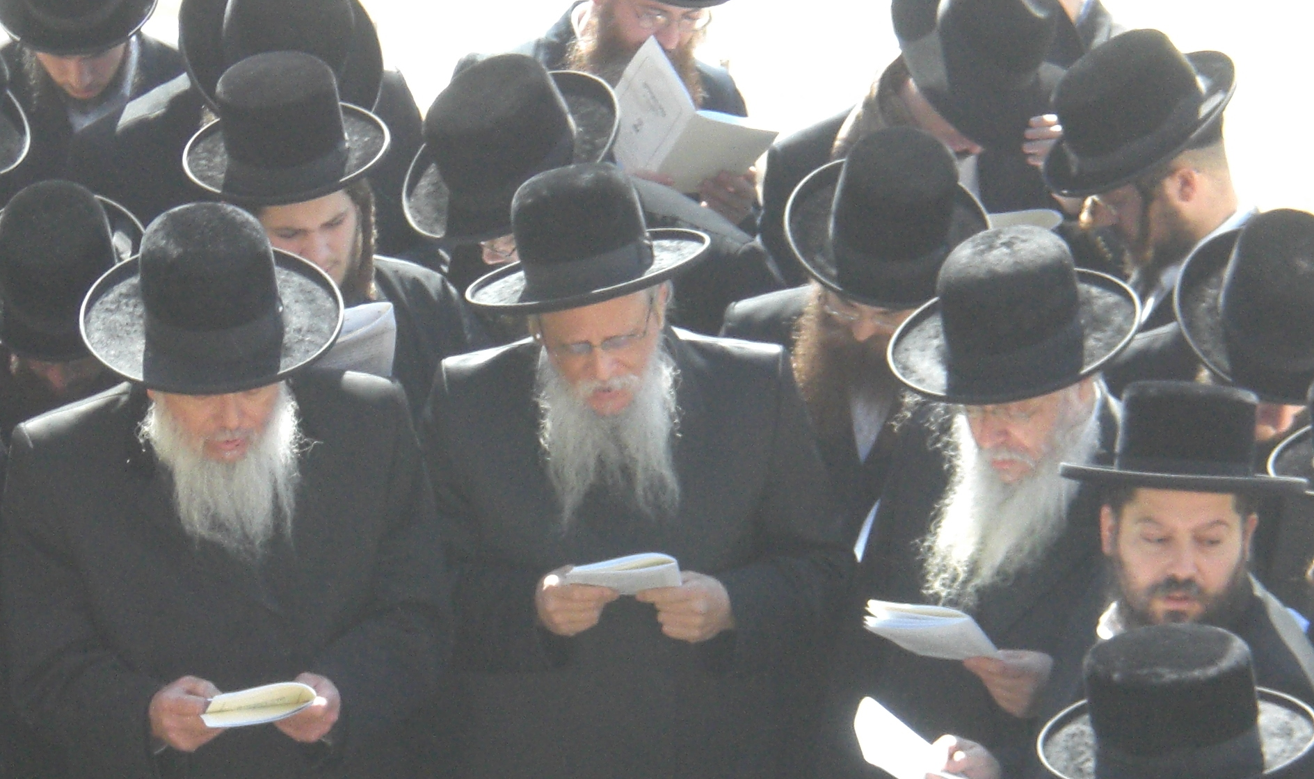 Newly designated Grand Rabbis of the Bostoner Dynasty